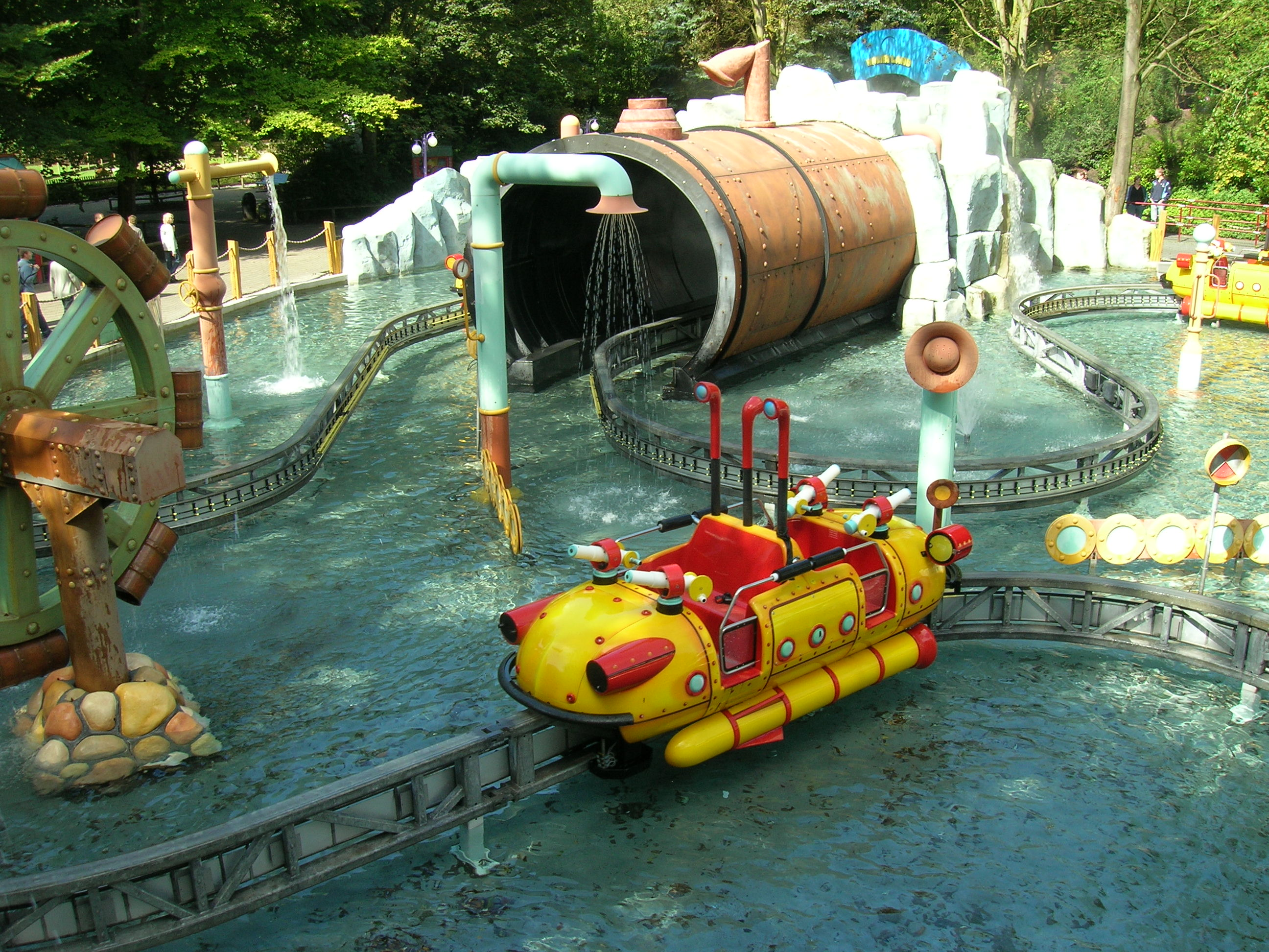 Splash Battle au parc d'attraction néerlandais "Walibi World"